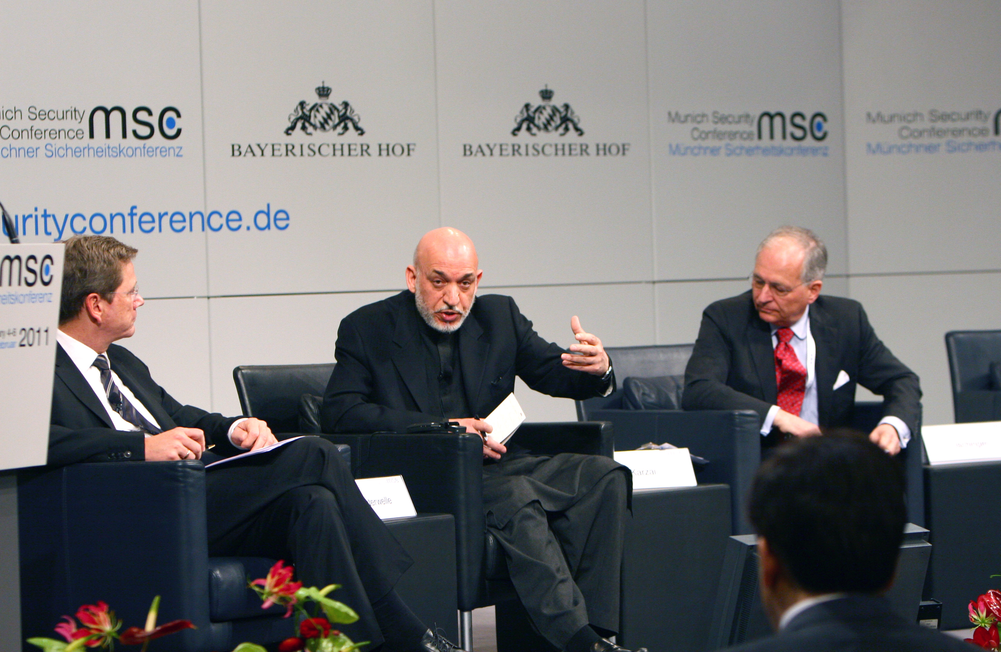 47th Munich Security Conference 2011: F le: Dr. Guido Westerwelle, Minister of Foreign Affairs, Germany, Hamid Karzai, President, Islamic Republic of Afghanistan, Wolfgang Ischinger, Chairman, Munich Security Conference.